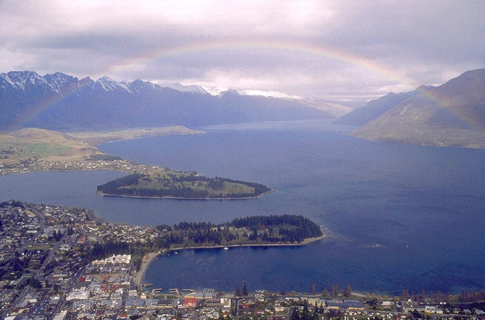 Queenstown, Lake Wakatipu, The Remarkables, and rainbow.